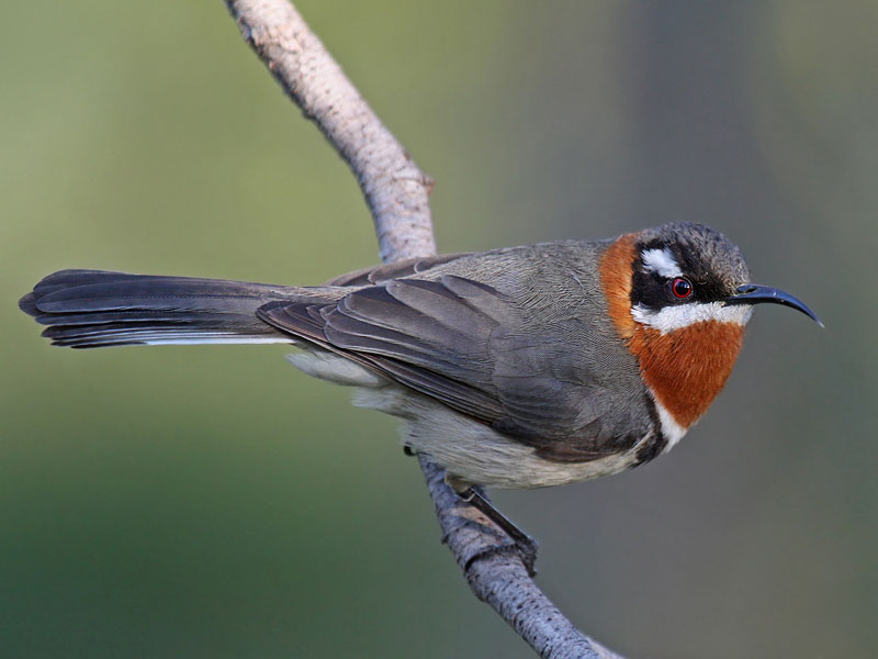 Male western spinebill in bushland south of Perth, Western Australia